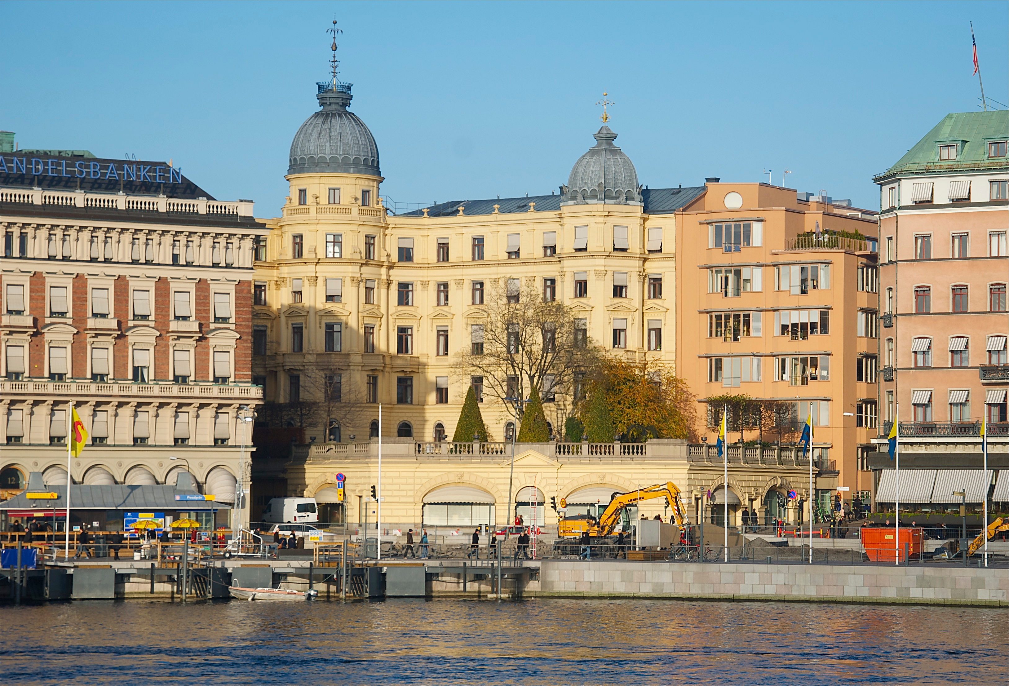 Fersenska palatset (Swedish: Fersen Palace), November 2011.